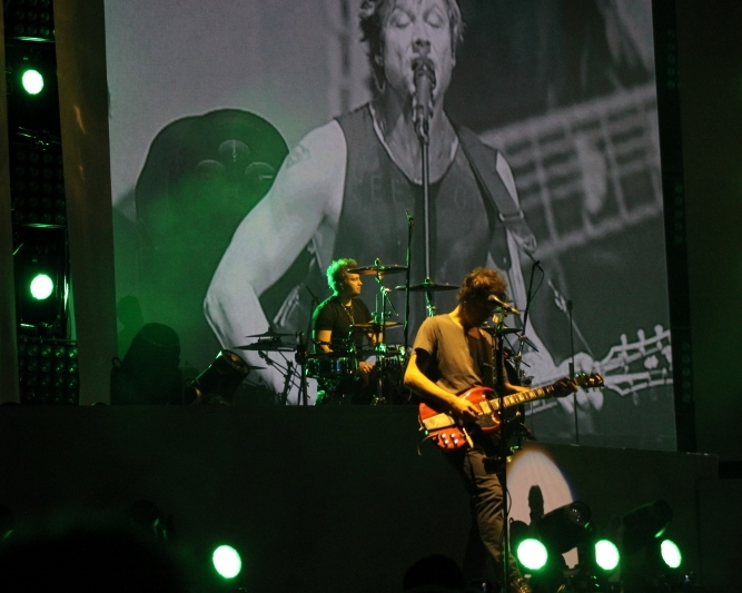 Sunrise Avenue in Frankfurt, 15.Februar 2014